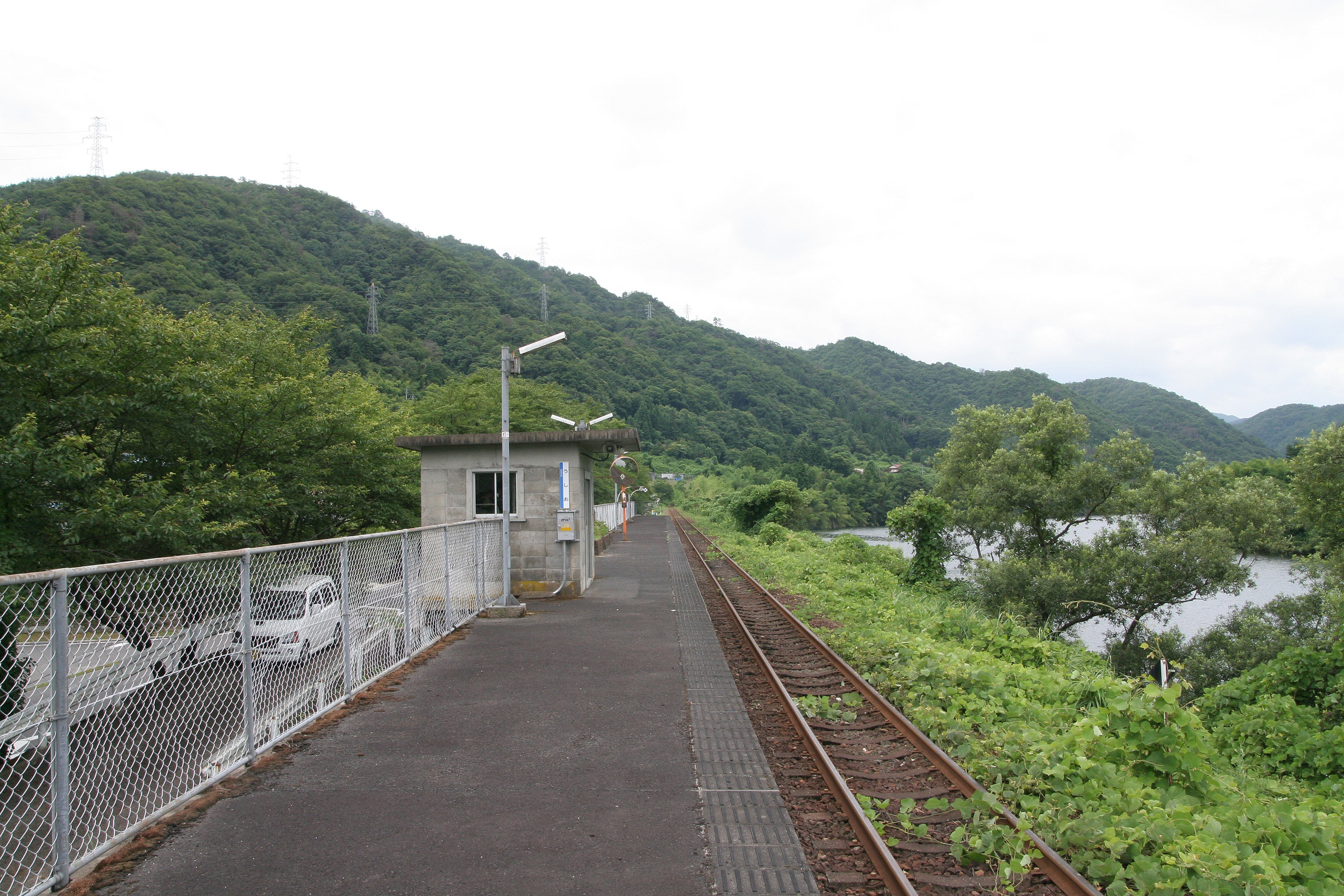 West Japan Railway Sankō Line Ushio Station enclosure